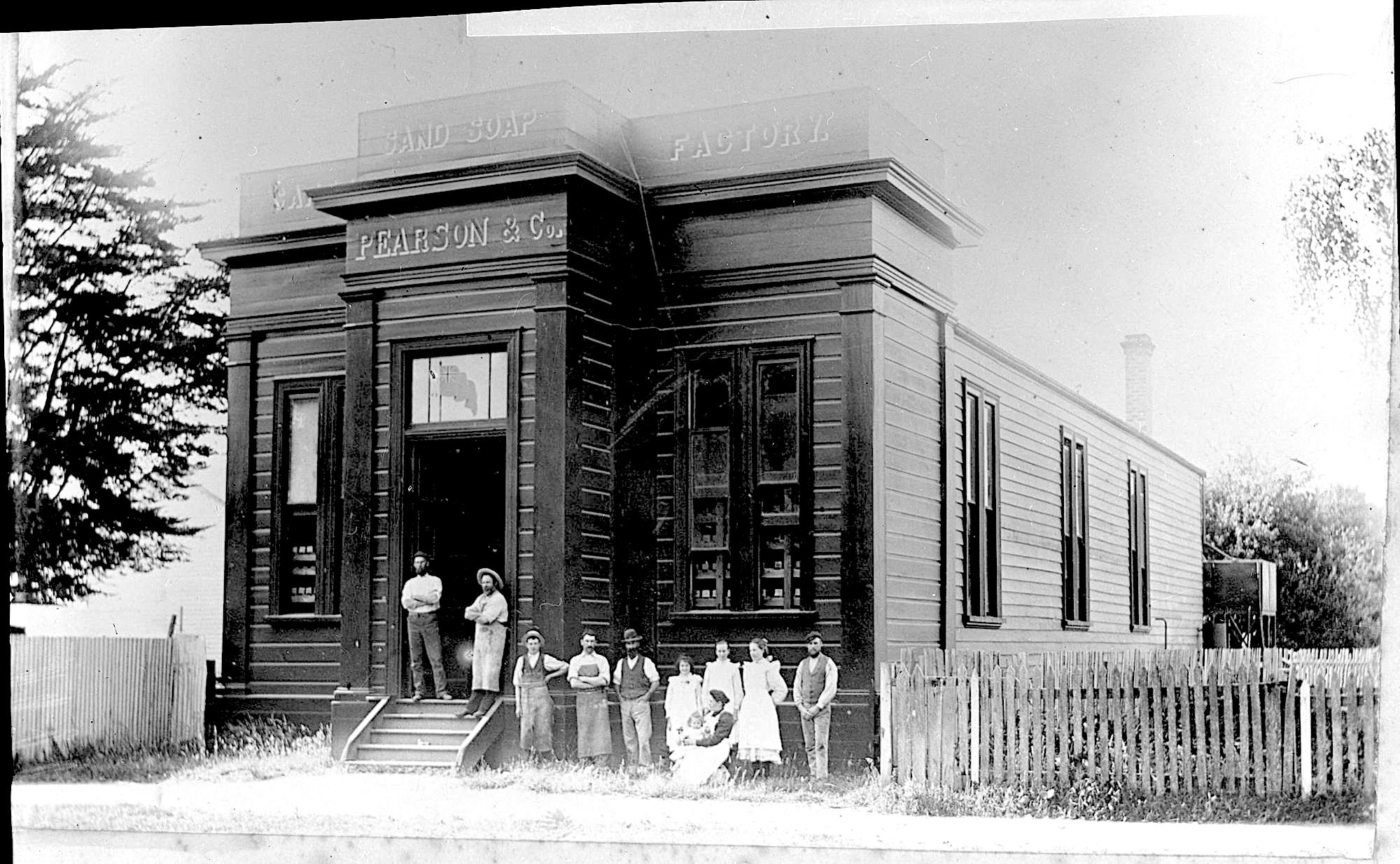 Originally built by E J Pearson as a hall for the Oddfellows Lodge, from about 1884 it became Pearson's carbolic sand soap factory. Later it was known as Buffalo Hall, then Cook Street bar.